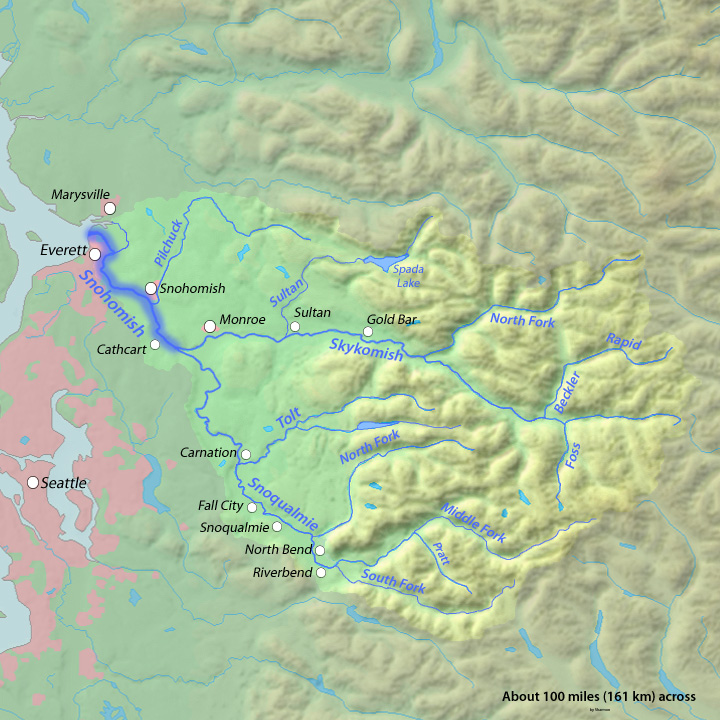 Map of the Snohomish River and tributaries, which drain a part of the Cascades of western Washington into the Puget Sound